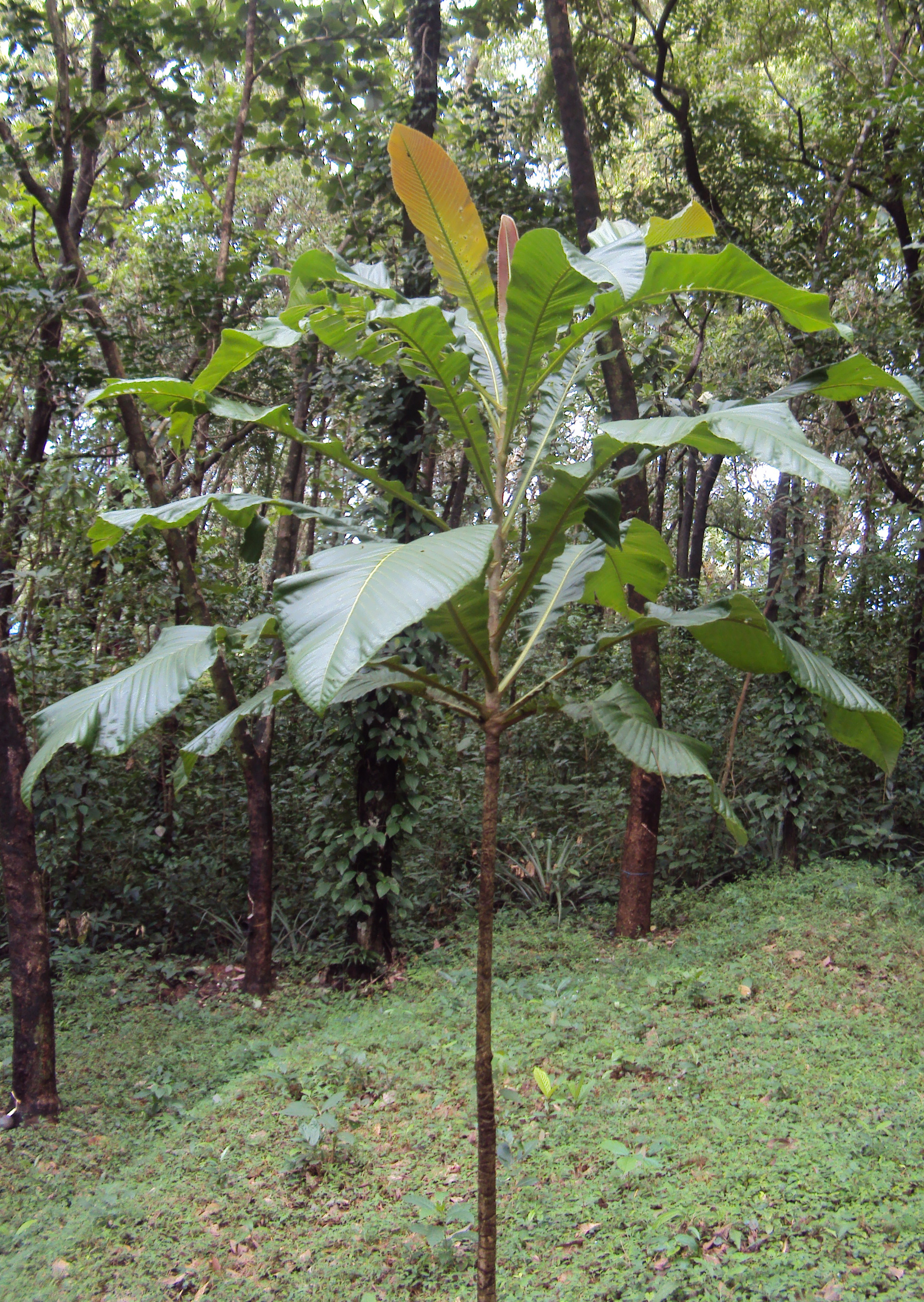 Dillenia pentagyna Roxb. - വാഴപ്പുന്ന